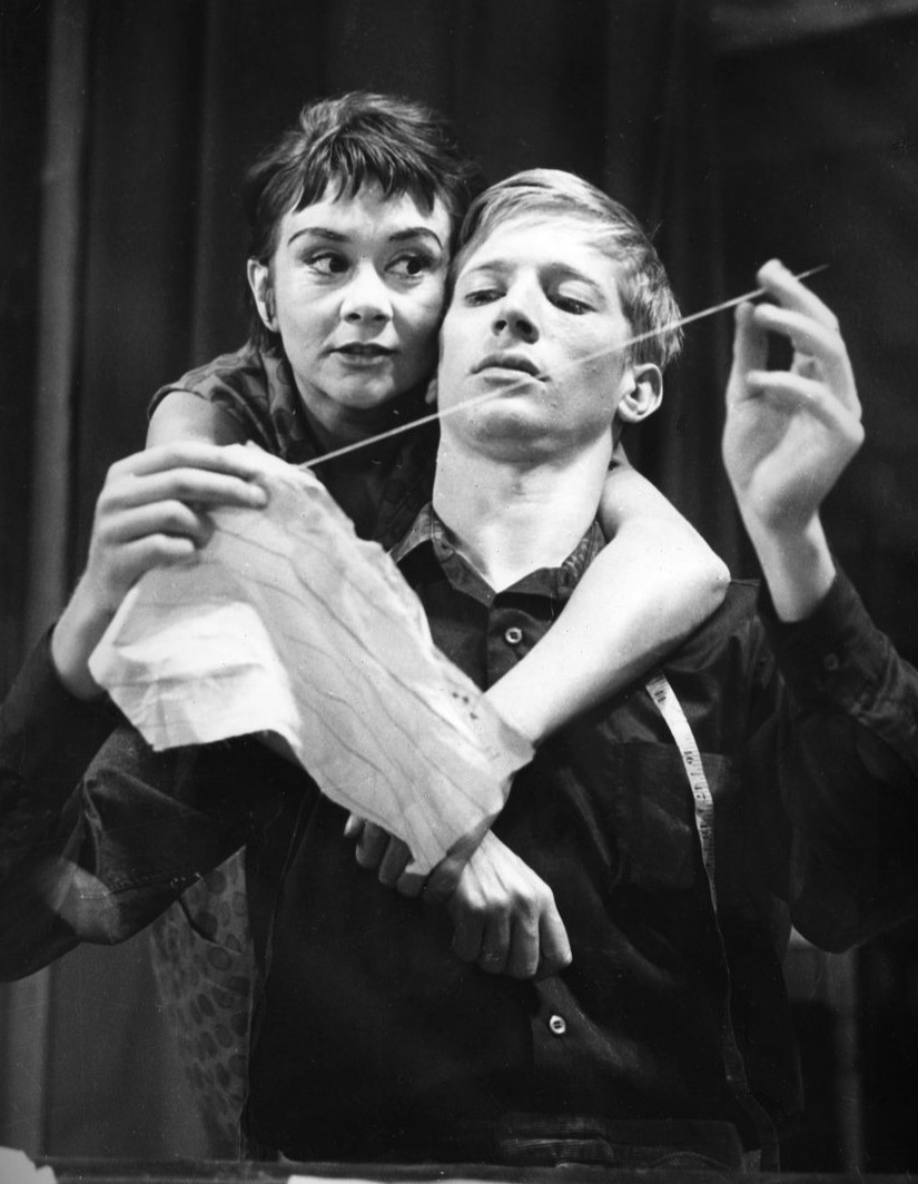 Photo of Joan Plowright as Jo and Andrew Ray as Geoff from the 1960 Broadway production of A Taste of Honey.